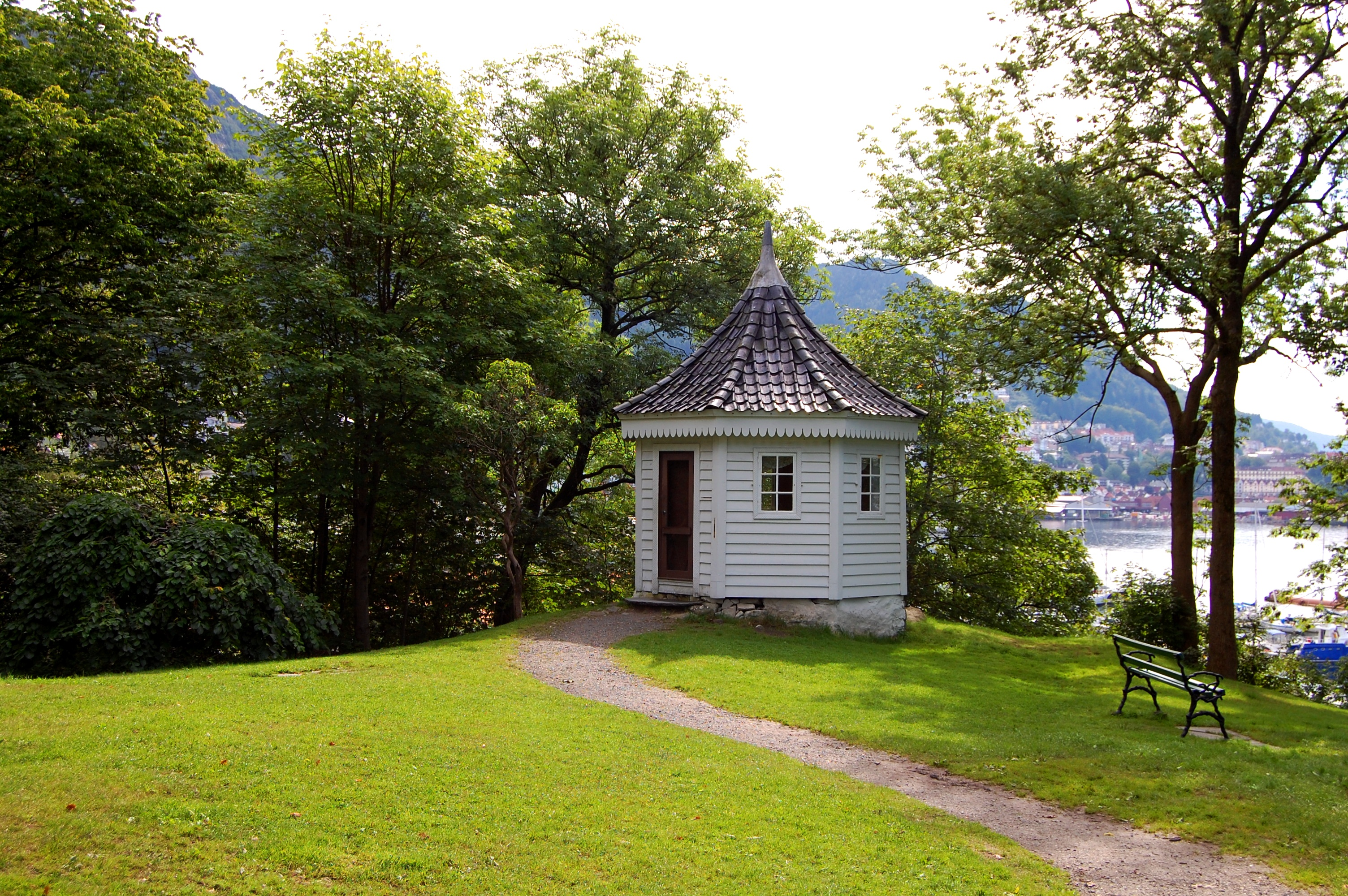 Elsesro